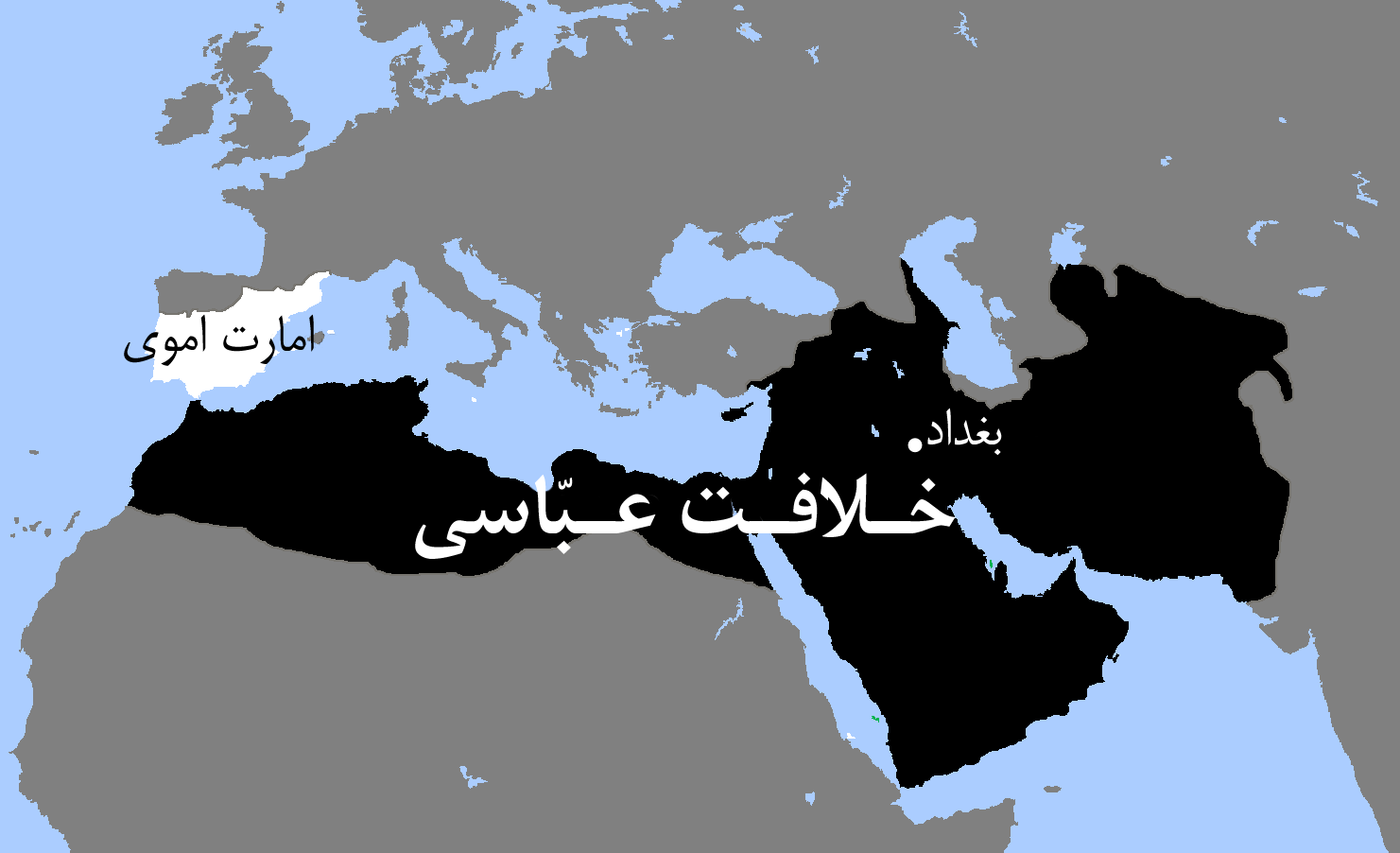 The Abbasid Caliphate map in Persian